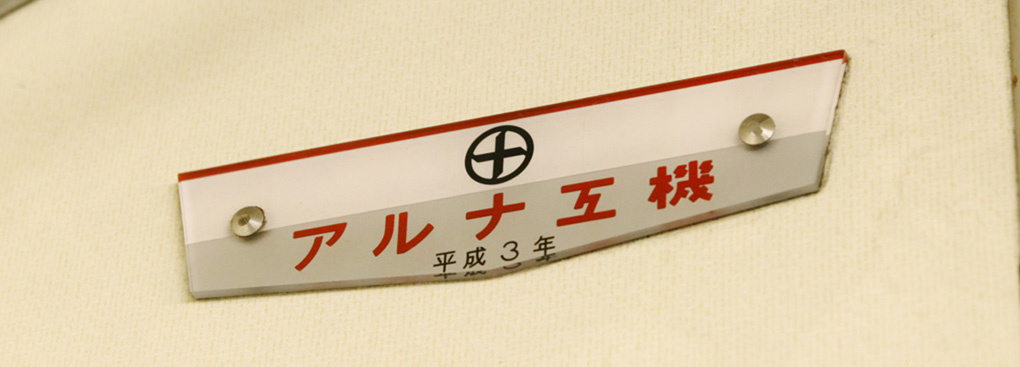 Builder's plate of Alna Koki, in The Tobu Railway 10030 Series.